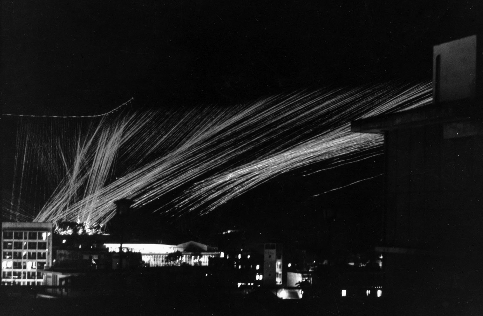 Night attack of a U.S. Air Force Douglas AC-47D Spooky gunship over Saigon in 1968. This time lapse photo shows the tracer round trajectories.